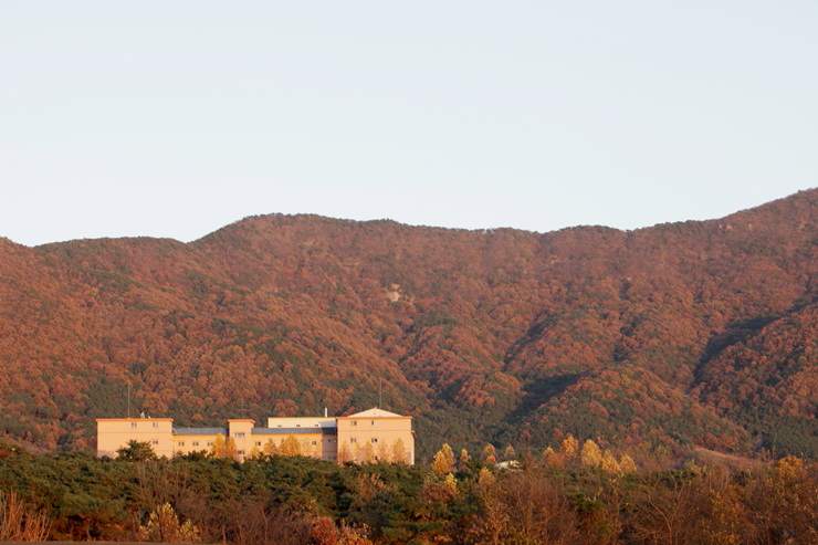 Maum Meditation Main Center in Autumn